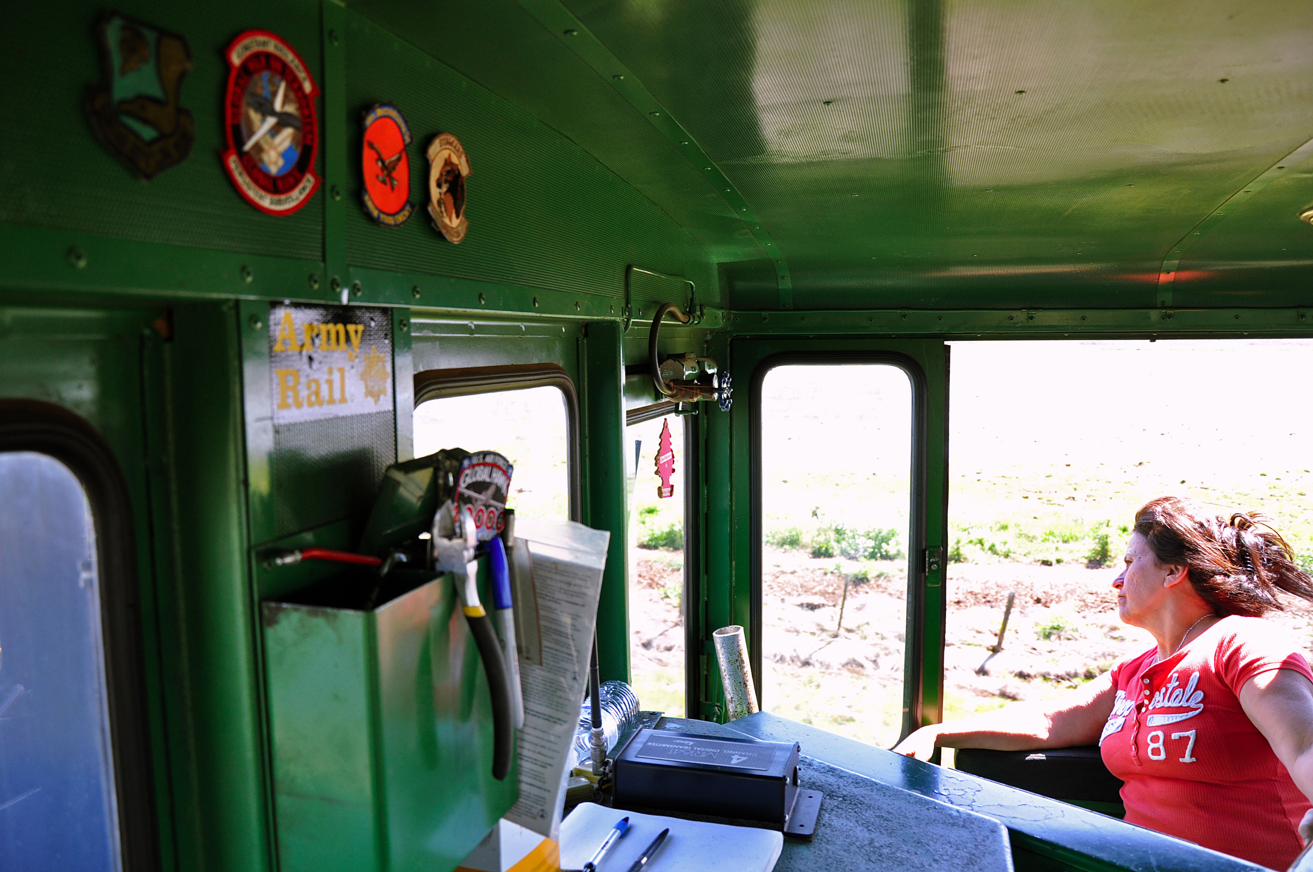 Susan Mertes, 9th Support Division locomotive engineer, looks to ensure the rails are clear at Beale Air Force Base, Calif., March 21, 2012. As a locomotive engineer, Mertes hauls JPTS fuel for the U-2. (U.S. Air Force photo by Airman 1st Class Andrew Buchanan/Released) *Source does not state the type of locomotive, other photos in this group confirm it's 1668, and confirms it's an 80-tonner.